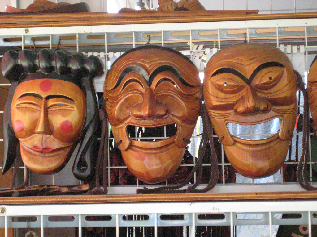 hahoe tal (hahoe mask) sold at Hahoe Folk Village in Andong, Gyeongsangbuk-do, South Korea